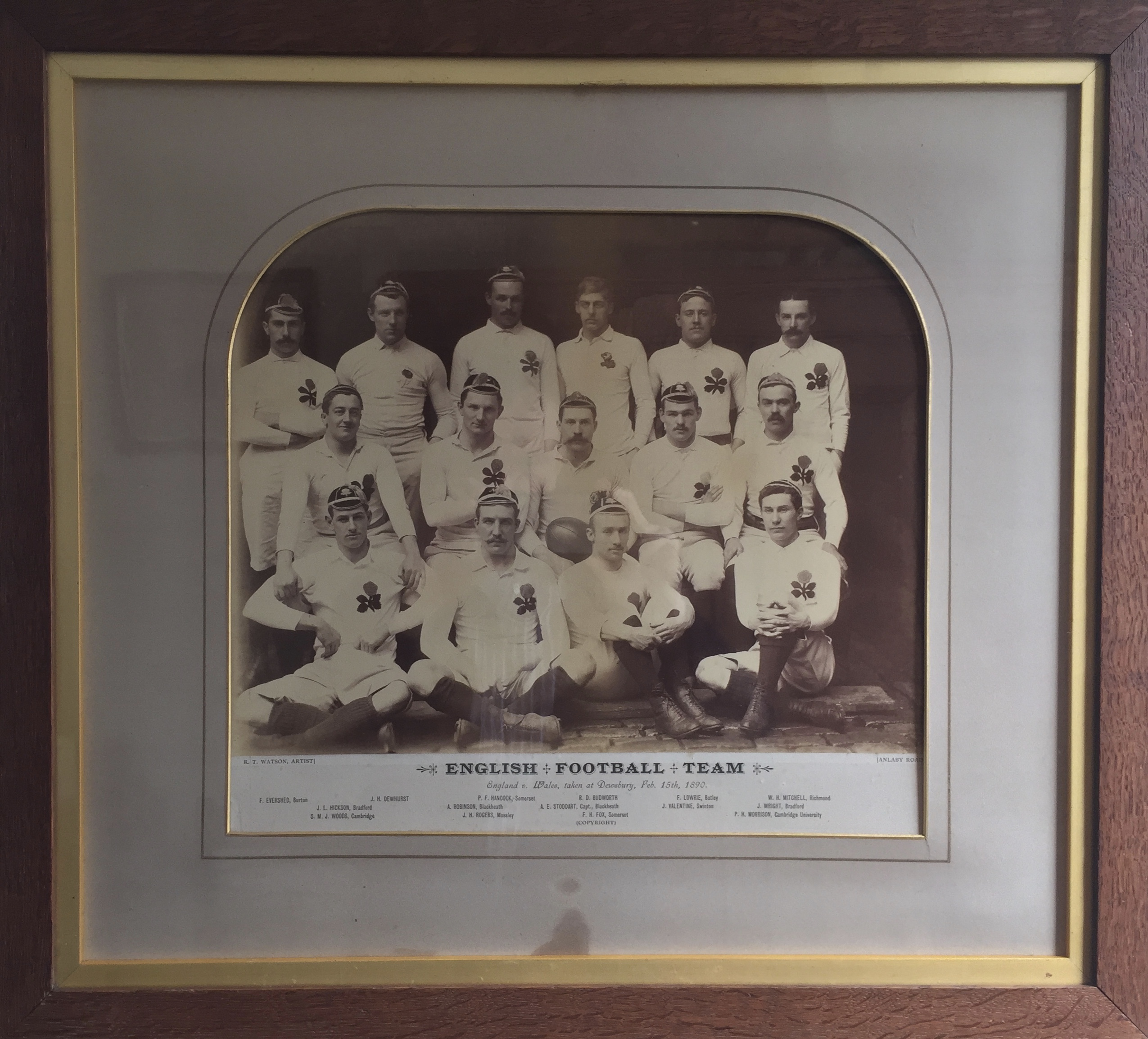 English (Rugby) Football Team. England v. wales taken at Dewsbury, Feb 15th 1890. Home Nations Championships.